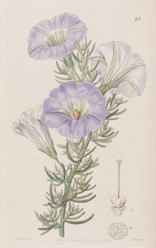 Illustration of Nolana coelestis (Orig. Alona coelestis)